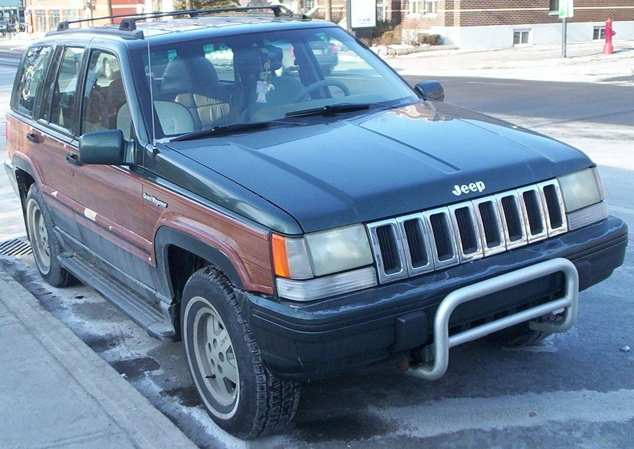 1993 Jeep Grand Wagoneer photographed in Montreal, Quebec, Canada